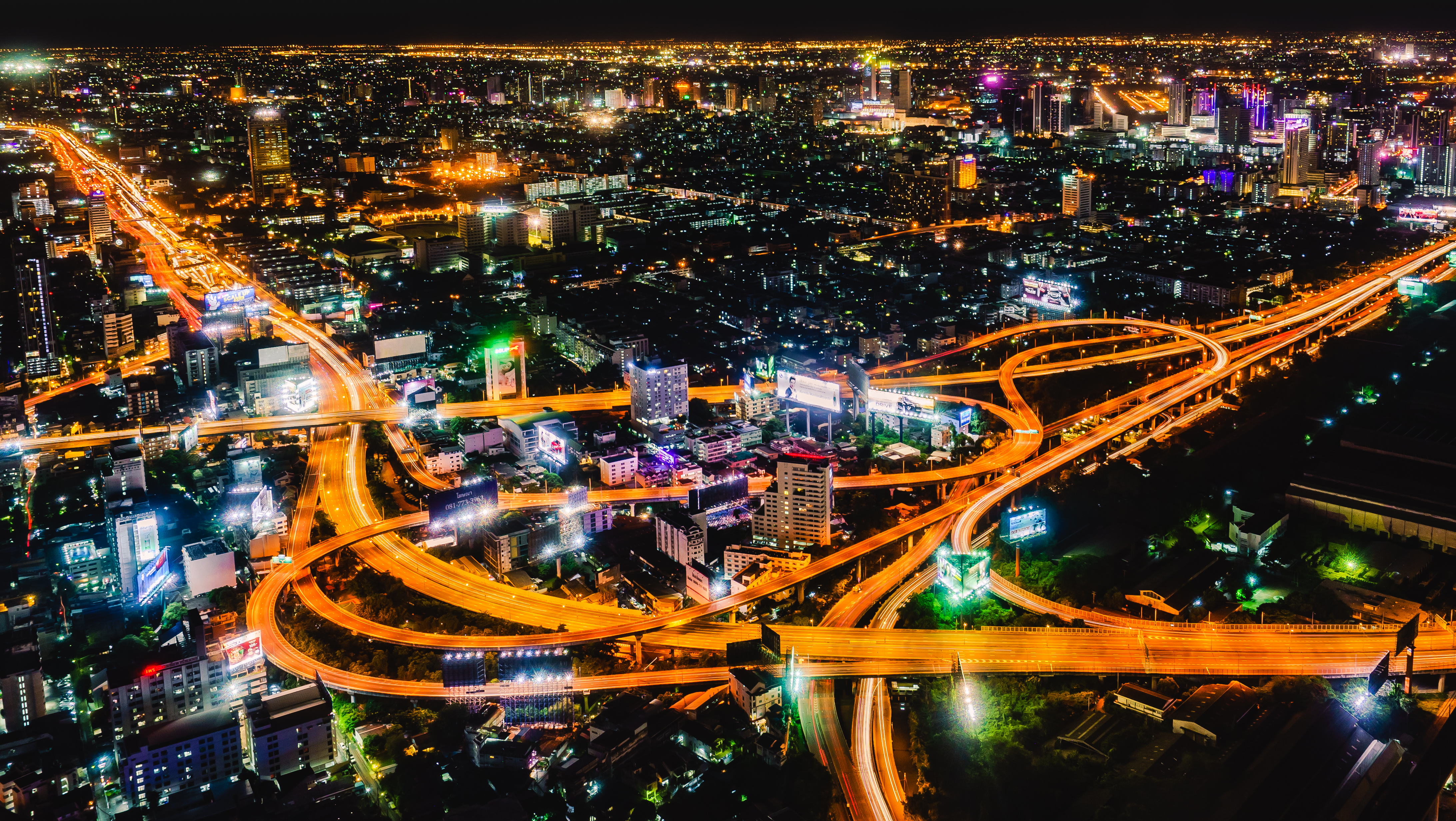 The Makkasan Interchange of Bangkok's expressway system at night, taken from Baiyoke Tower II